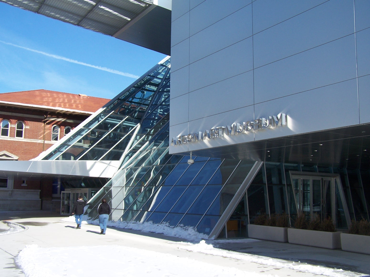 Akron Art Museum